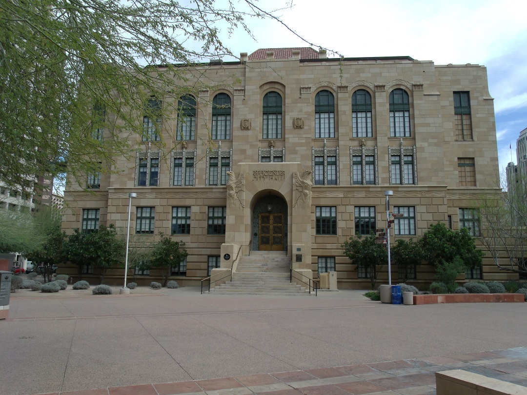 Historic Old Phoenix City Hall built in 1928 and located at 17 S. Second Ave. This structure served as the Phoenix's City Hall until 1994 when the a new building was completed to serve as such. Designated as a landmark with Historic Preservation-Landmark (HP-L) overlay zoning Historic Preservation Individually Designated Properties.